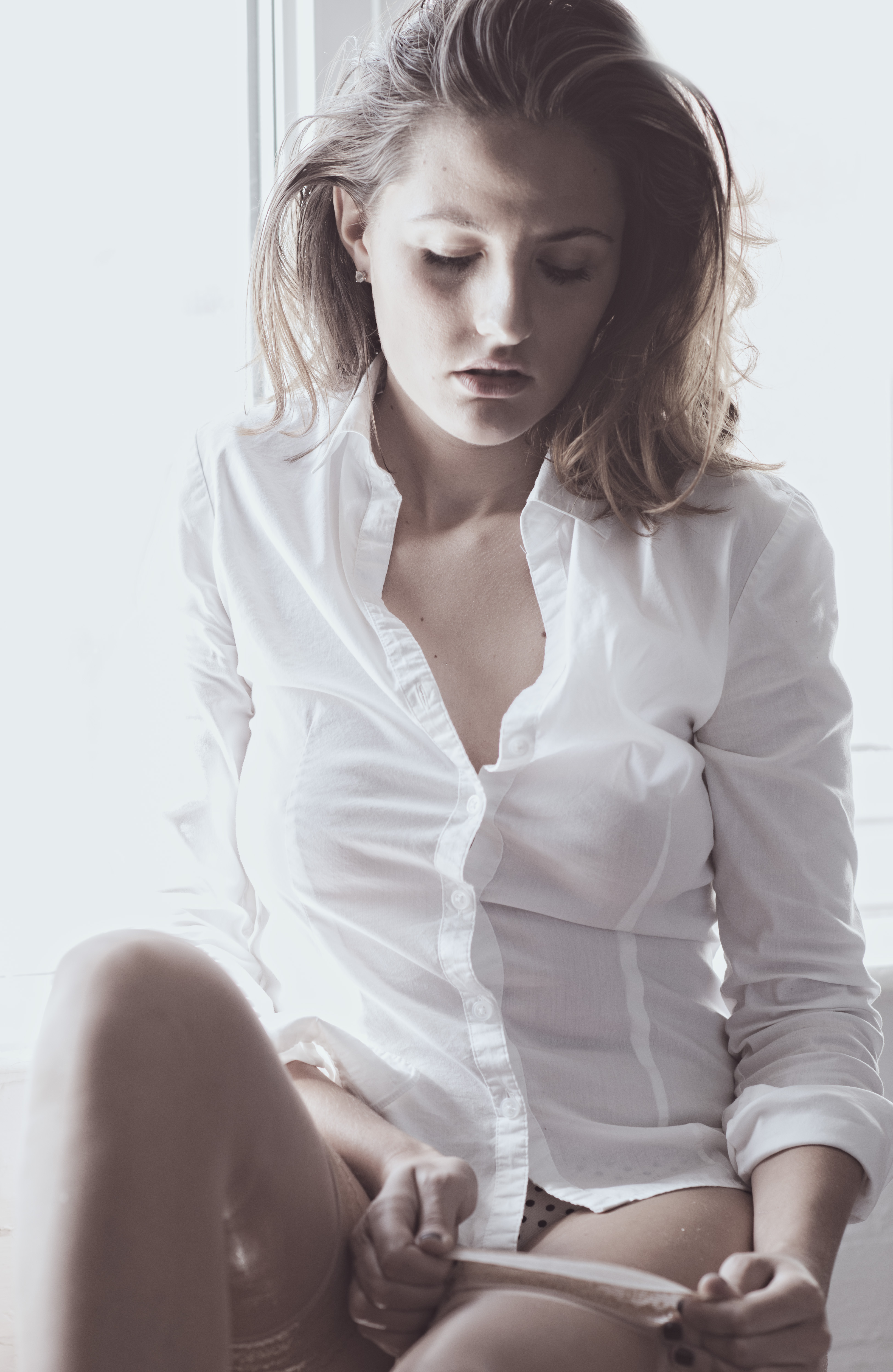 Another batch of shots that I had yet to spend some much time on. Model - Allea Year Taken - September 2013 Camera - Nikon D800E Lens - Nikon 85mm f/1.4G Location - Studio Allea I have a new favourite model. Welcome to the world of this beautiful, young Romanian girl named Allea. Having travelled up to the midlands from London, she arrived as the embodiment of perfection and then proclaimed that she would have to go and get ready, to make herself presentable. I questioned whether she could make herself look any better, but nevertheless, off she trotted to the dressing room. What emerged from the changing room was this… She is by far the most beautiful girl Ive ever had the good fortune to photograph, and quite possibly the most beautiful girl Ive met. The photos do her scant justice and however beautiful she may look on here, she is more beautiful in the flesh. Whilst talking about flesh, she does not do artistic nude, topless, or anything of that kind - for which my heart and general cardiovascular health is eternally grateful. Model by night, NLP therapist by day. She claimed to be able to cure me of any fear of phobia I may have - my phobia of stunningly attractive models remained unhealed. She has got such a dominant, sexy look in front of the camera and I hope I have down that some justice here. She is funny, charming, and great company on any of our many coffee and cigarette breaks. When she changes her hairstyle, she becomes someone else. Each pose is different, but in truth, it is between poses, when she is not quite aware a photo is being taken, that her real poise is shown.